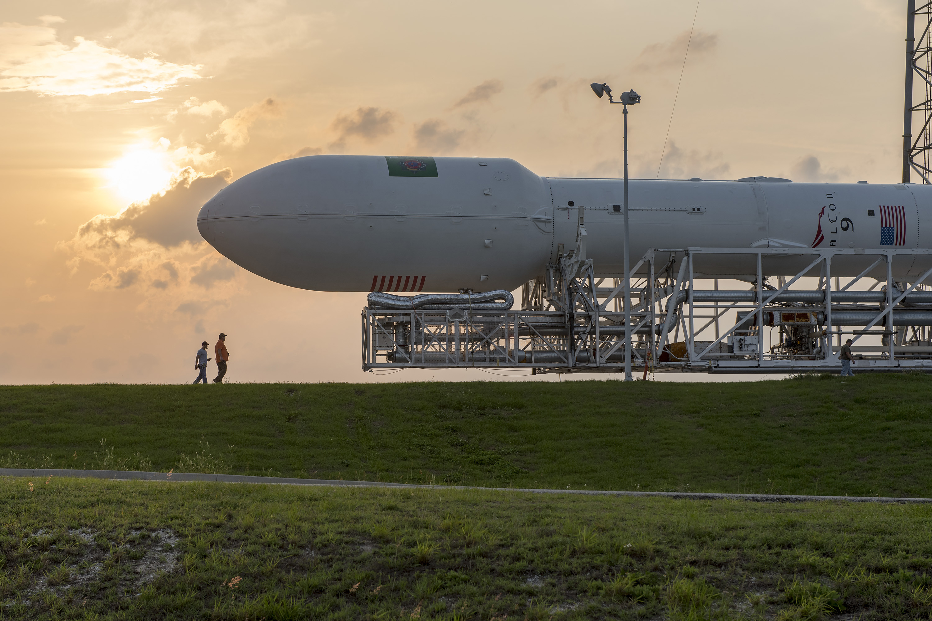 A SpaceX Falcon 9 v1.1 rocket is rolled out to Cape Canaveral Space Launch Complex 40 on April 26, 2015, in advance of the April 27 launch attempt for the TurkmenÄlem52E/MonacoSAT telecommunications satellite.